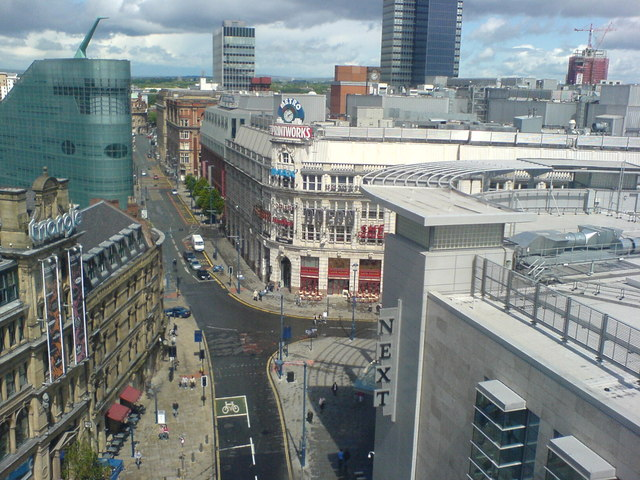 The printworks taken from Wheel of Manchester View of the printworks taken from Wheel of Manchester sited on Exchange Square, Manchester.